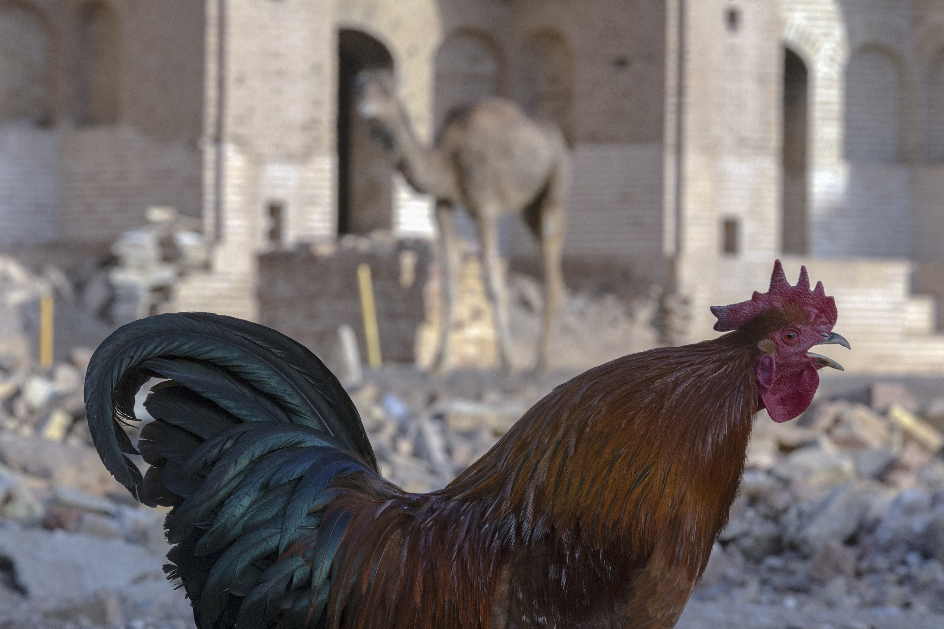 Animals are multicellular eukaryotic organisms that form the biological kingdom Animalia.